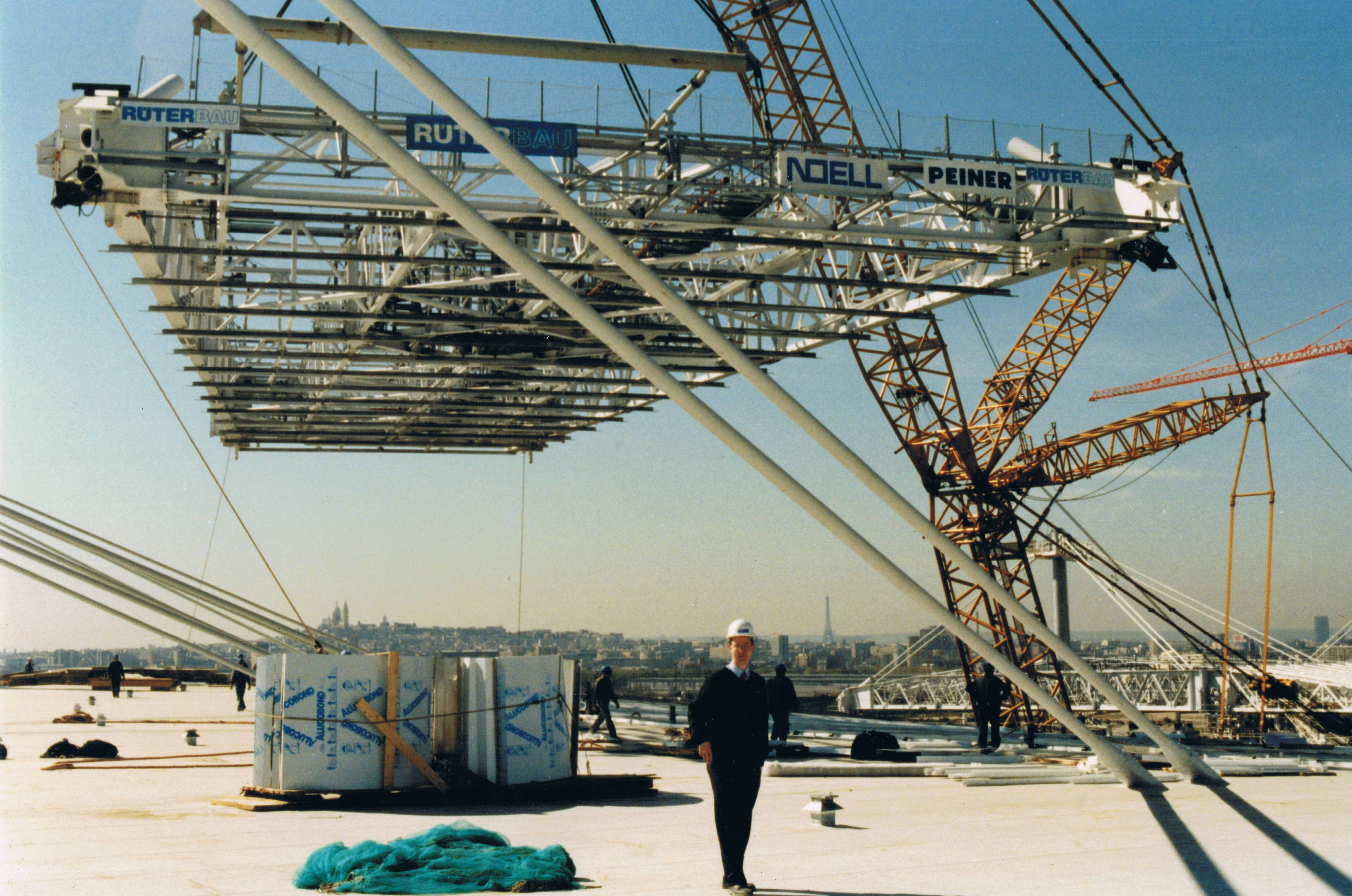 I was engineer at this time at the Stade de France. The picture shows the construction of the last part of the roof of the Stade de France. With one of the biggest cranes of the world (provided by Noell) the metallic construction was lifted up to its final position. In the background of the picture you can see the Tour Eiffel and Paris.